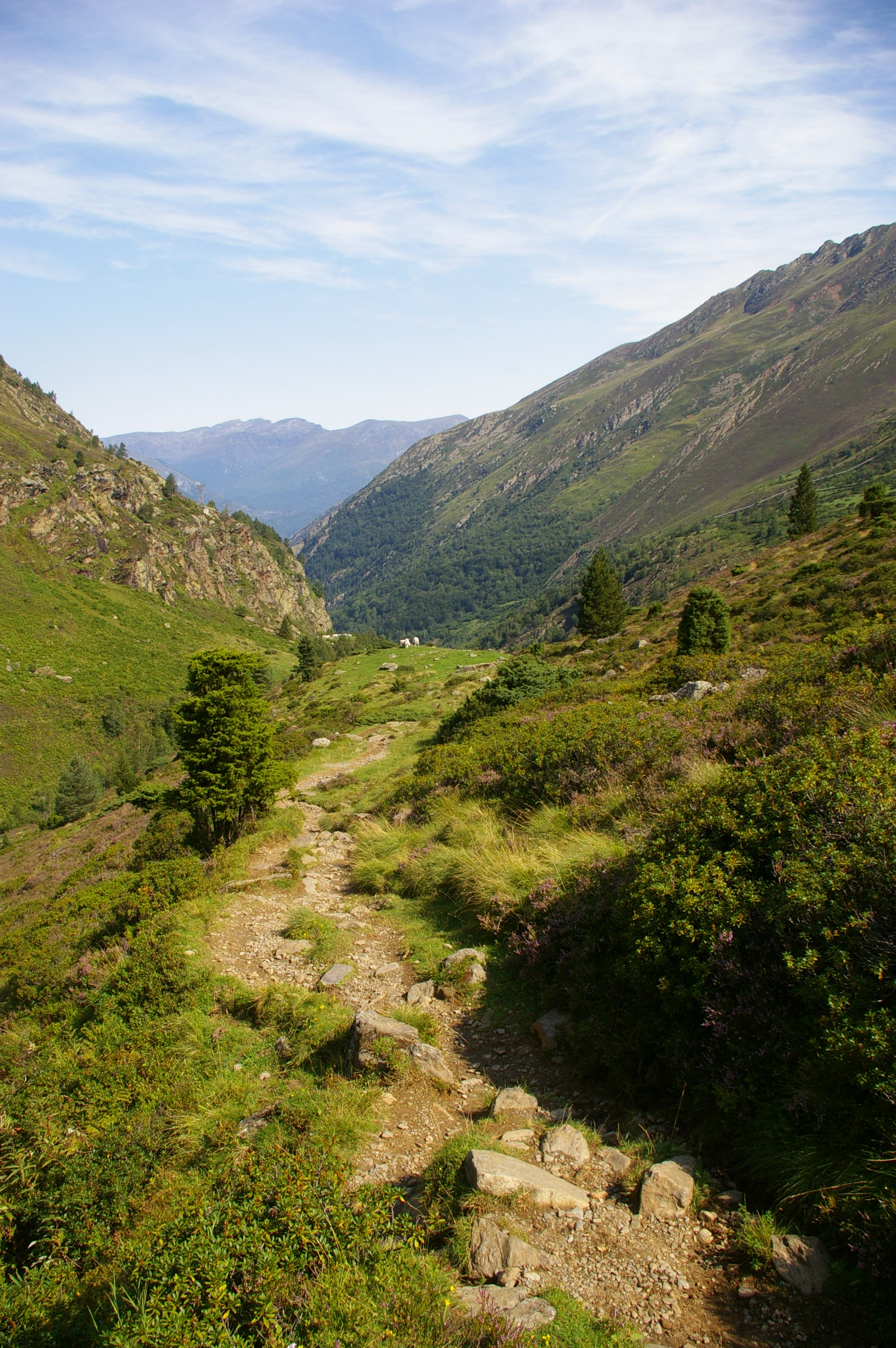 On the GR 10 hiking trail near the Etang d'Izourt, Ariège.